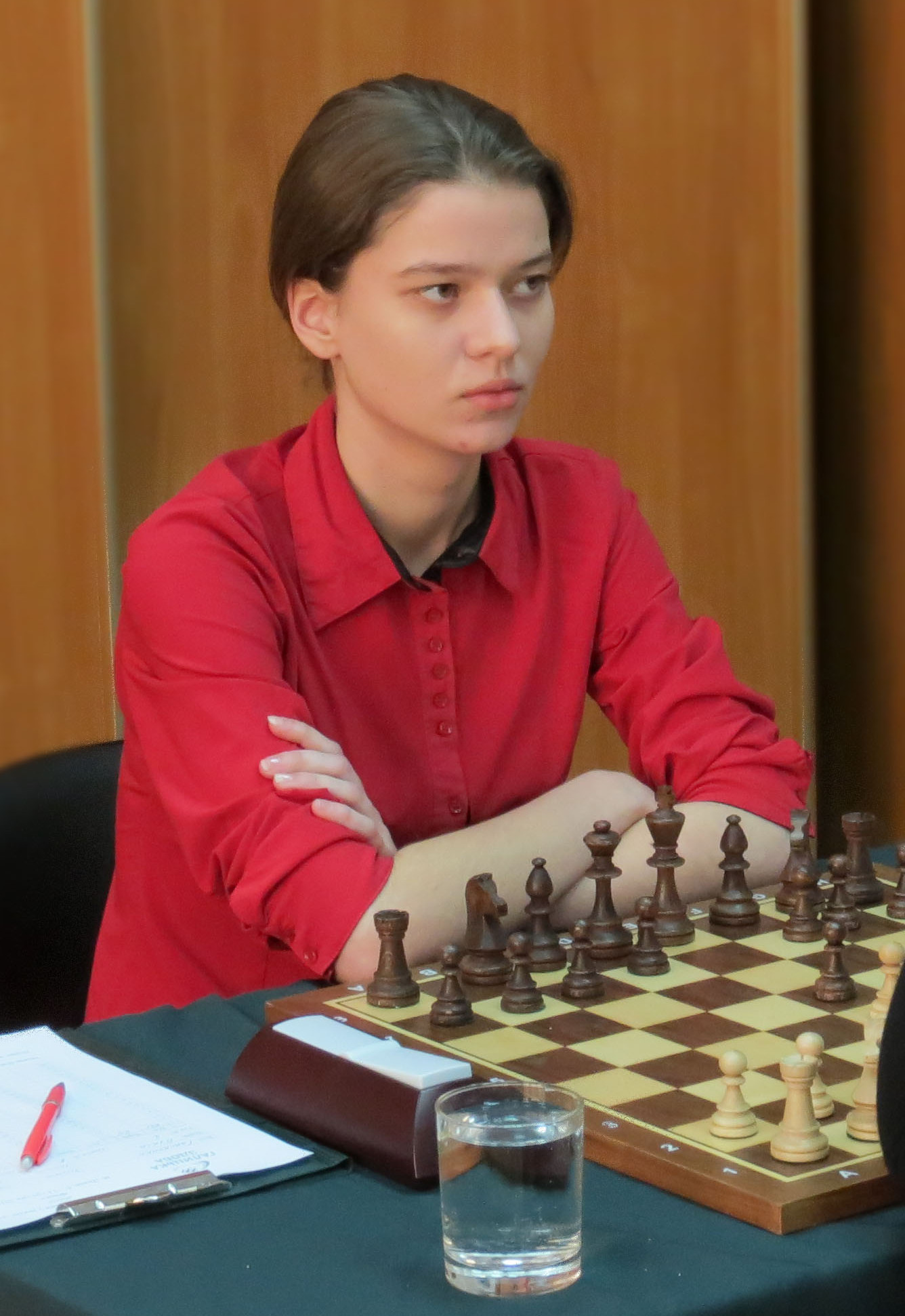 Buksa Nataliya Ukrainian championship 2015